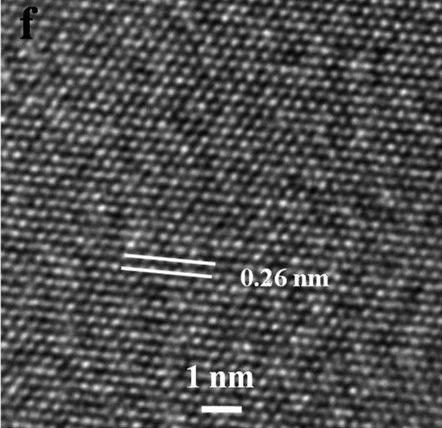 (f) Atomic scale micrograph of phosphorene